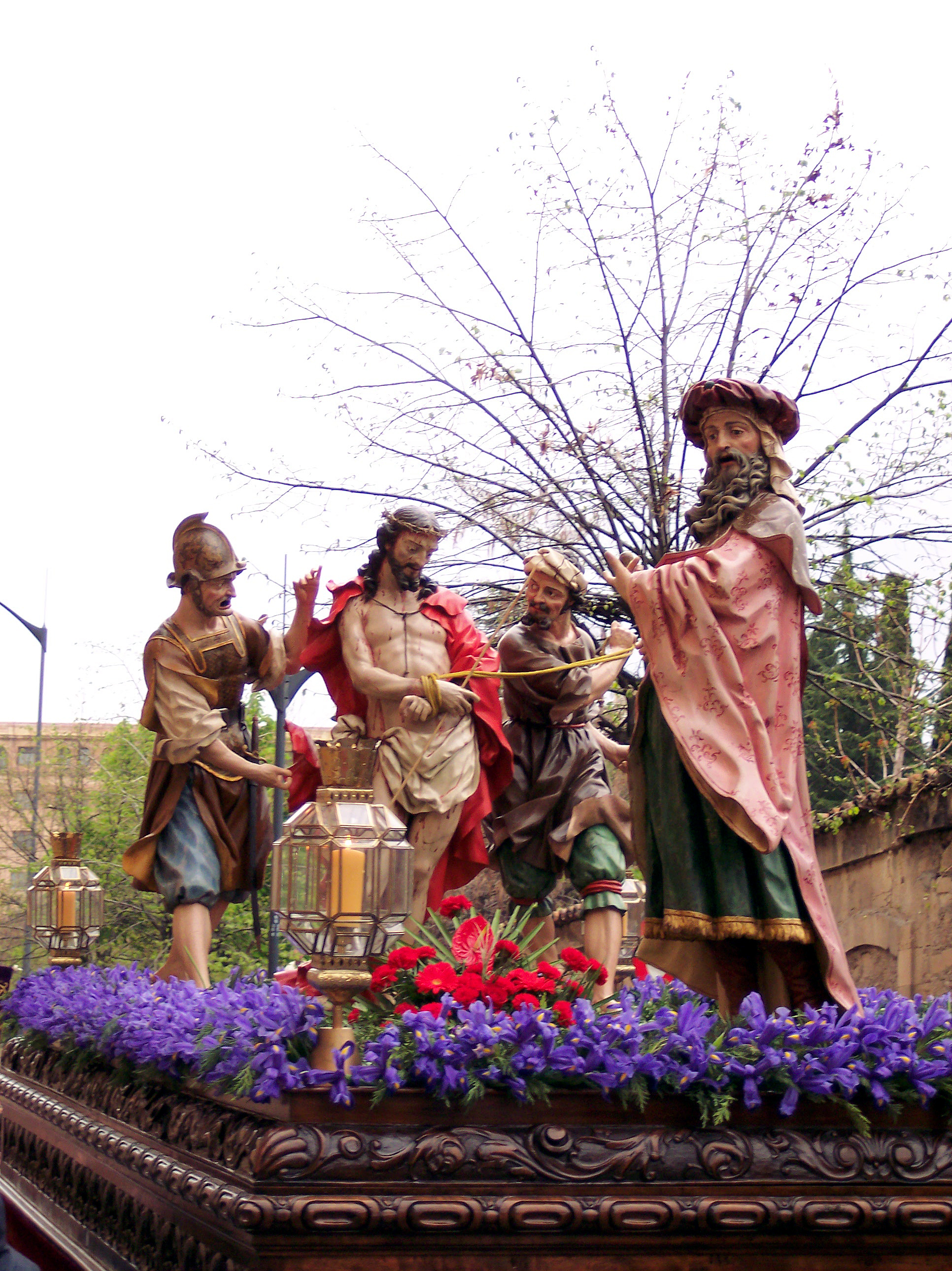 Paso of the Ecce Homo, by Alejandro Carnicero, Salamanca, Spain